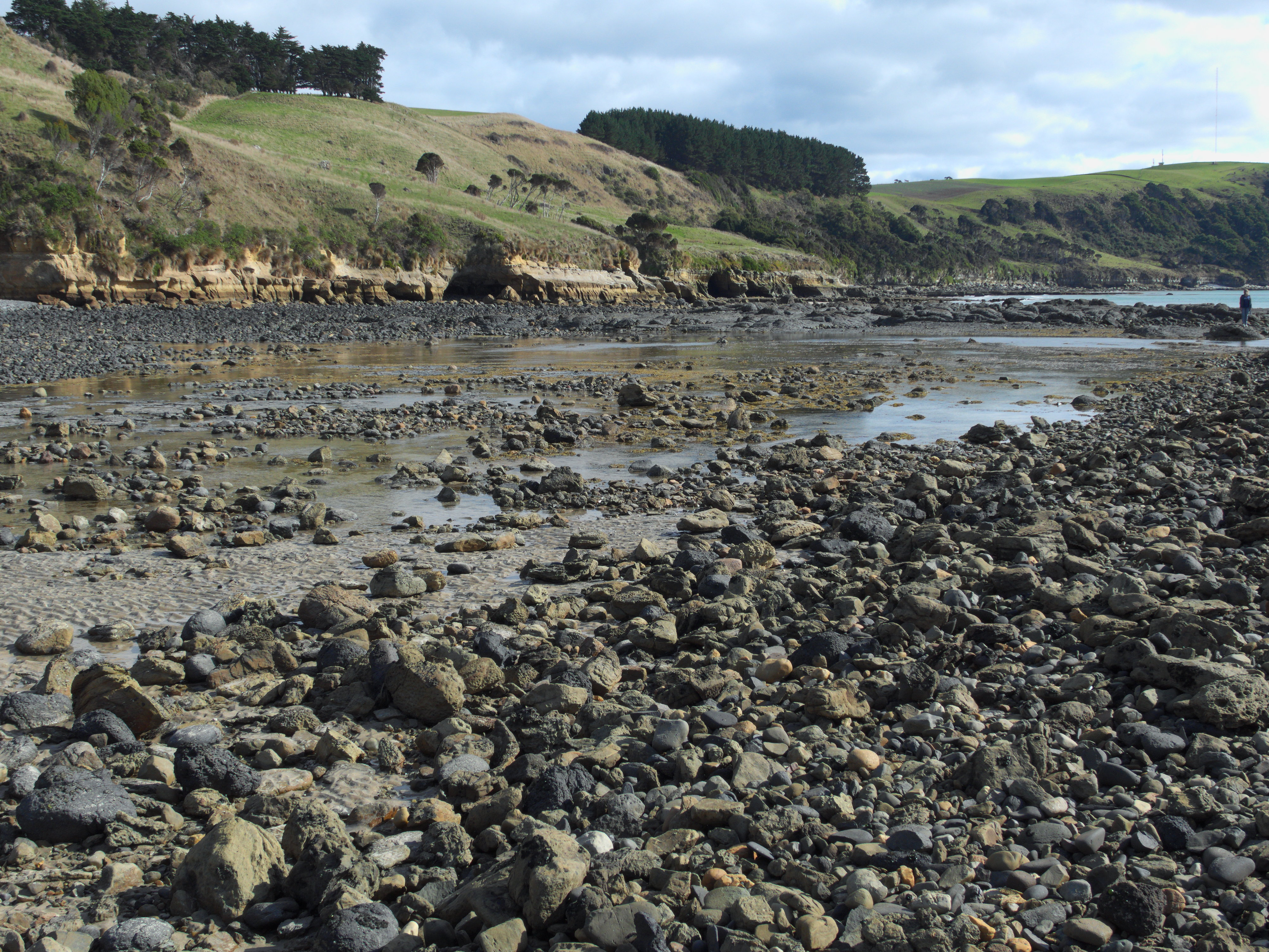 An old fish trap on the beach north of Fossil Bluff, Tasmania. Rocks walls have been constructed to form a tidal pool which is supposed to trap fish when the tide goes out. Probably constructed by Aboriginal Tasmanians before European settlement, although it can't be dated.